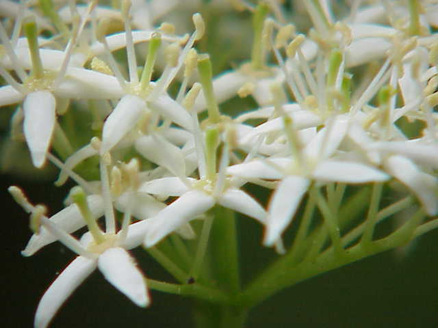 Species: Cornus sanguinea Family: Cornaceae Image No. 1